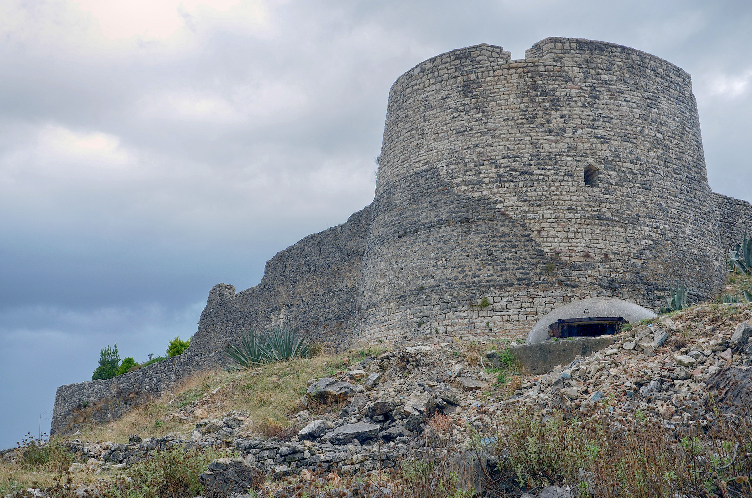 The southern wall and southeastern tower of the Lëkurësi Castle